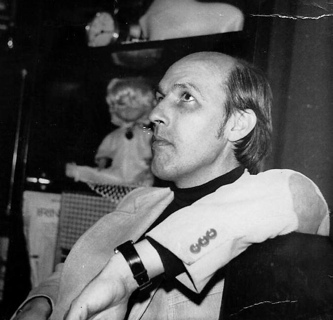 Poza din 1979